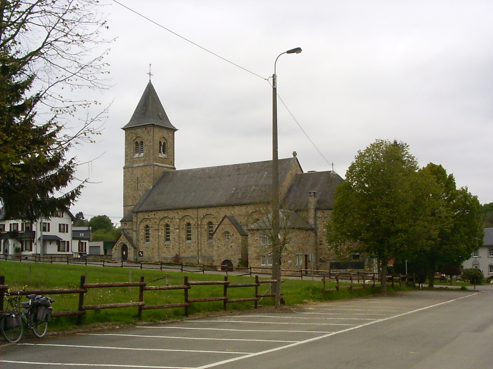 Church of Born (Amel)